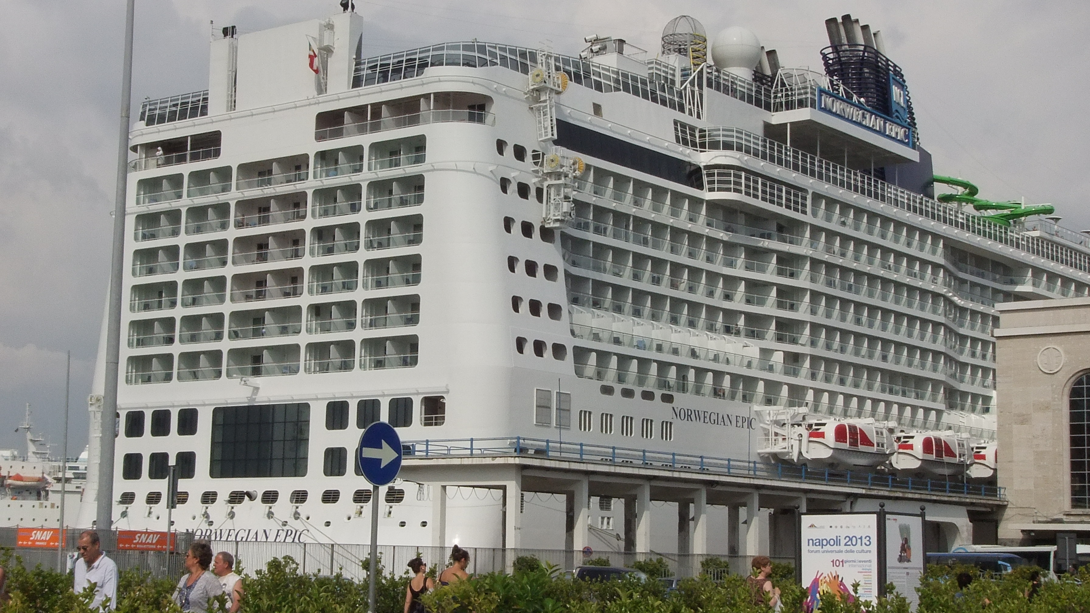 Norwegian Cruise Line (NCL) Norwegian Epic - Port of Naples, Molo Beverello Europe - May 9 -June 5, 2011 Review of Norwegian Epic can be found here